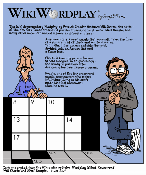 WikiWorld comic based on the articles "Wordplay (film)," "Crossword," "Will Shortz" and "Merl Reagle."